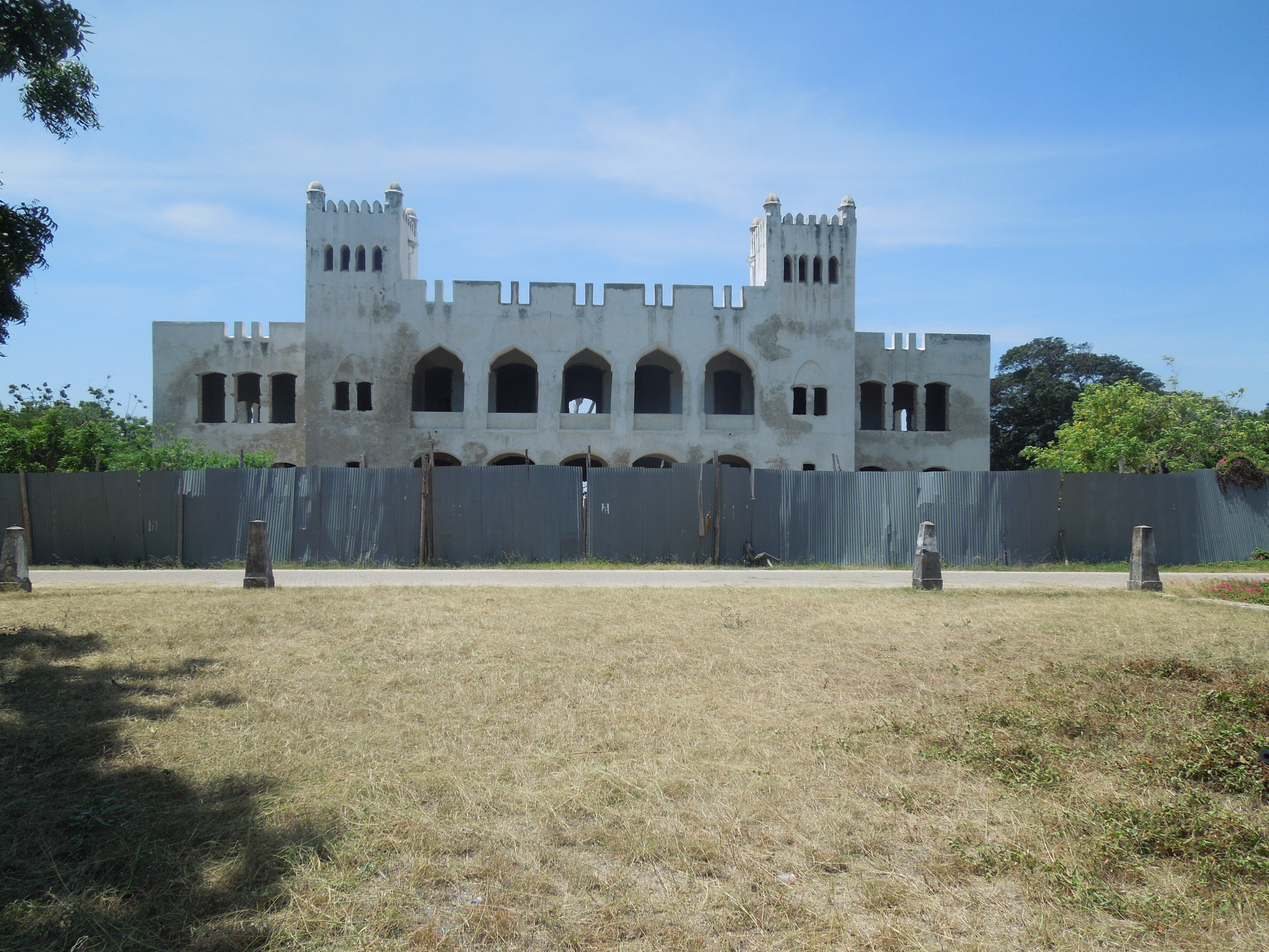 German Boma in Bagamoyo